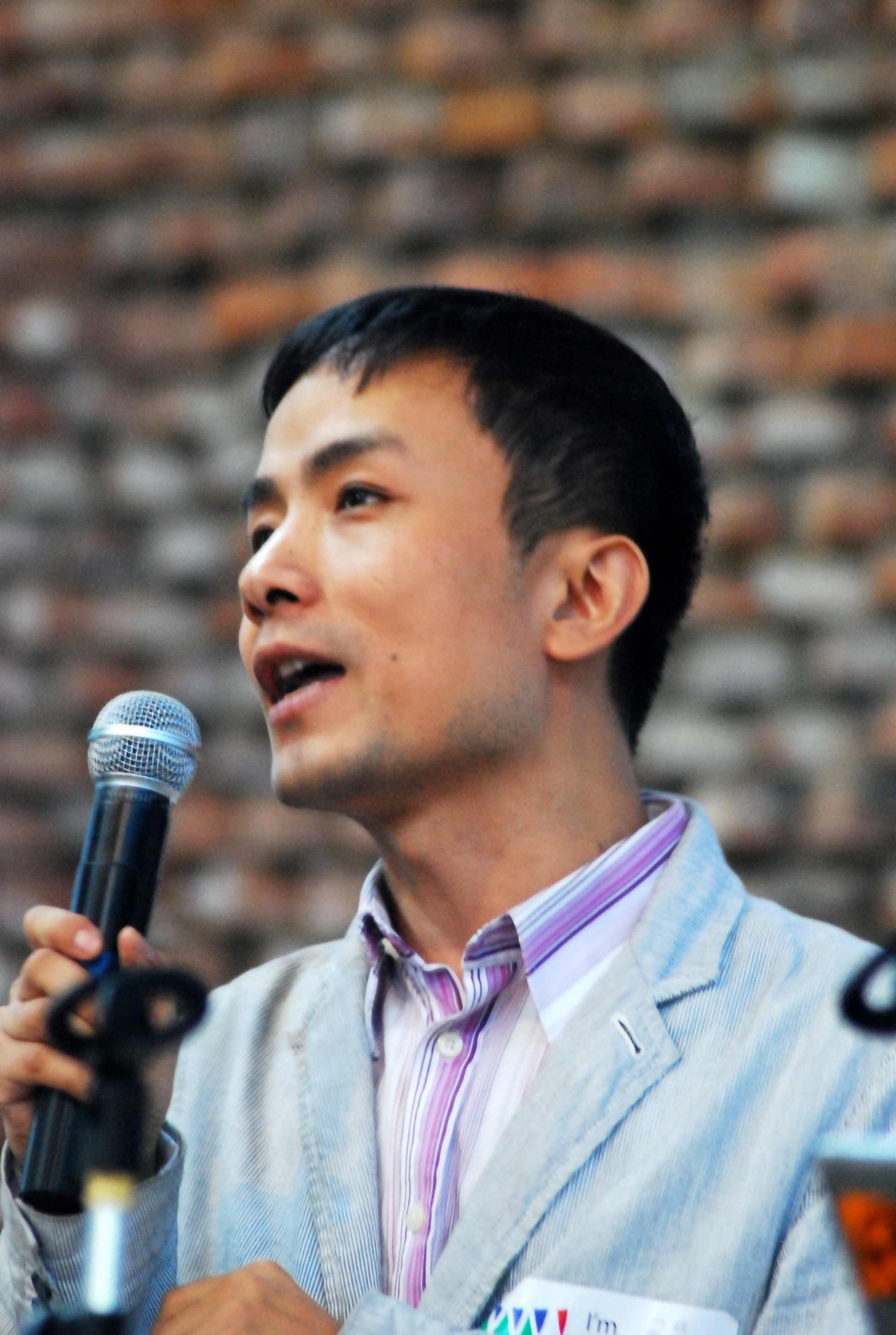 anti at cnbloggercon2008